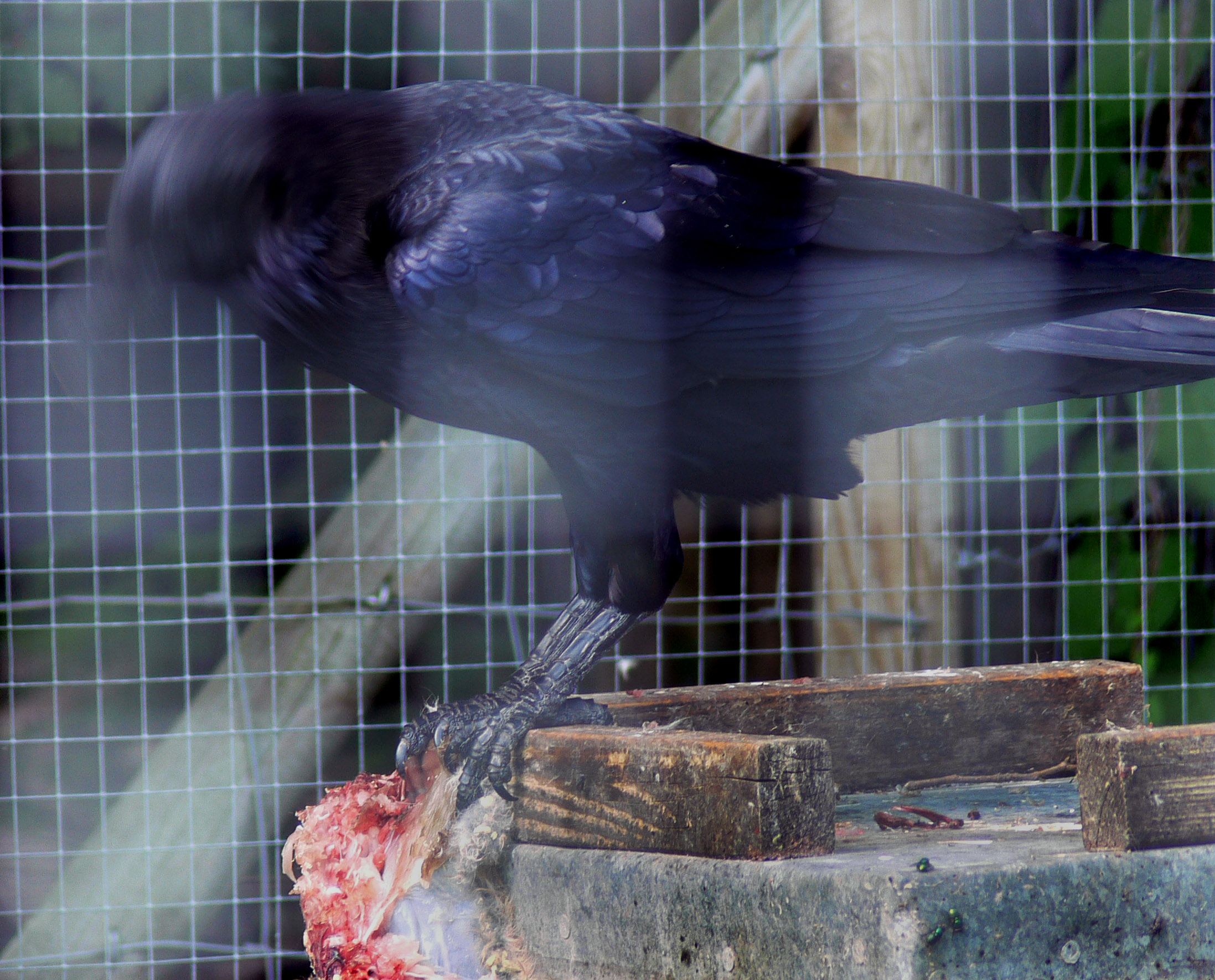 Corvus corax, Wildwood Discovery Parkrecently calledWildwood Trust,in Kent (United Kingdom)